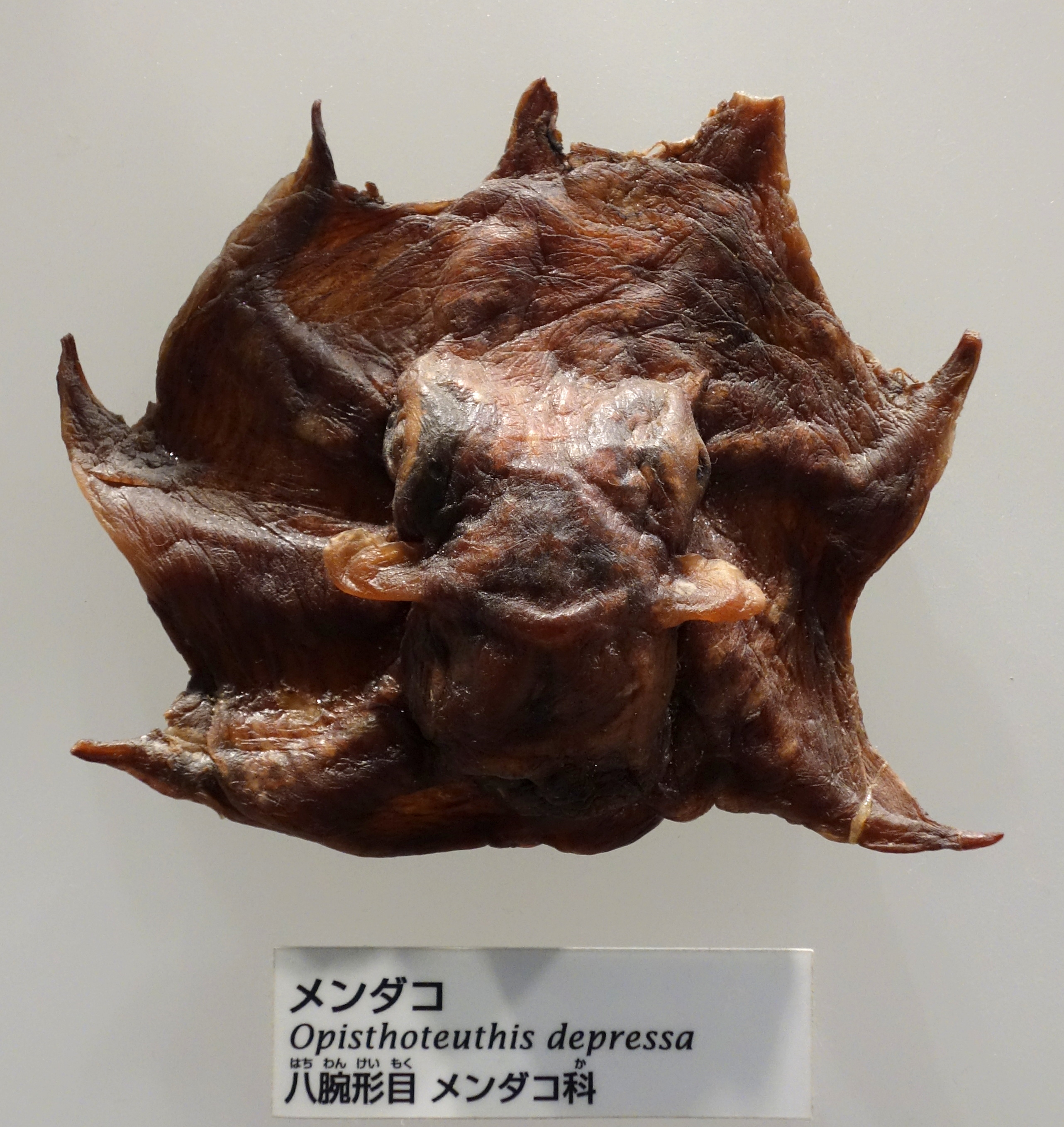 Exhibit in the National Museum of Nature and Science, Tokyo, Japan.